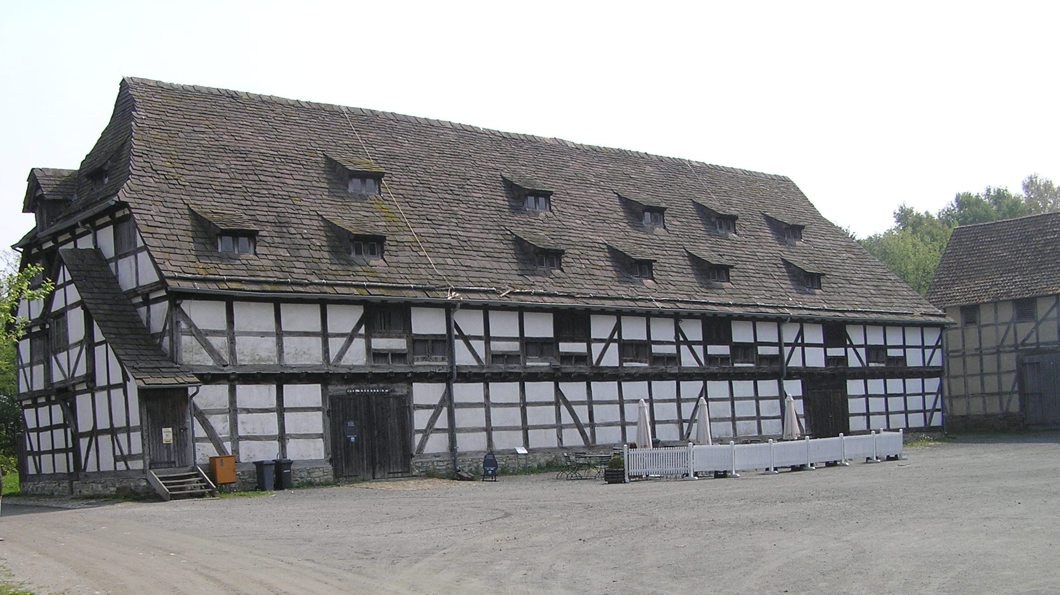 Tithe barns in Hessenpark, Hesse, Germany